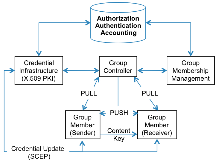 This is the functional block diagram of a complete RFC 3547 group key management system as defined by the Wikipedia GDOI entry